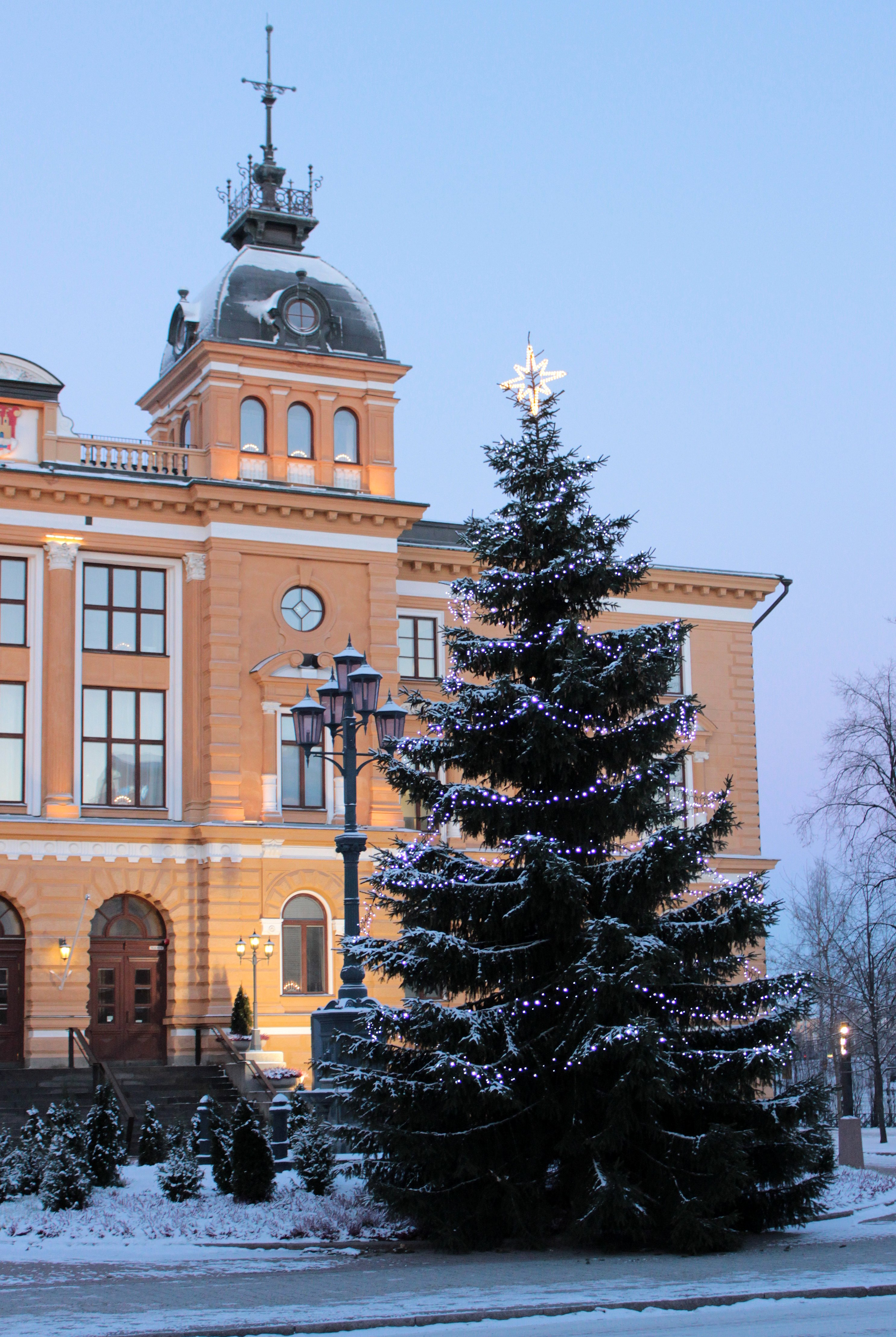 Oulu City Hall with the Christmas tree.